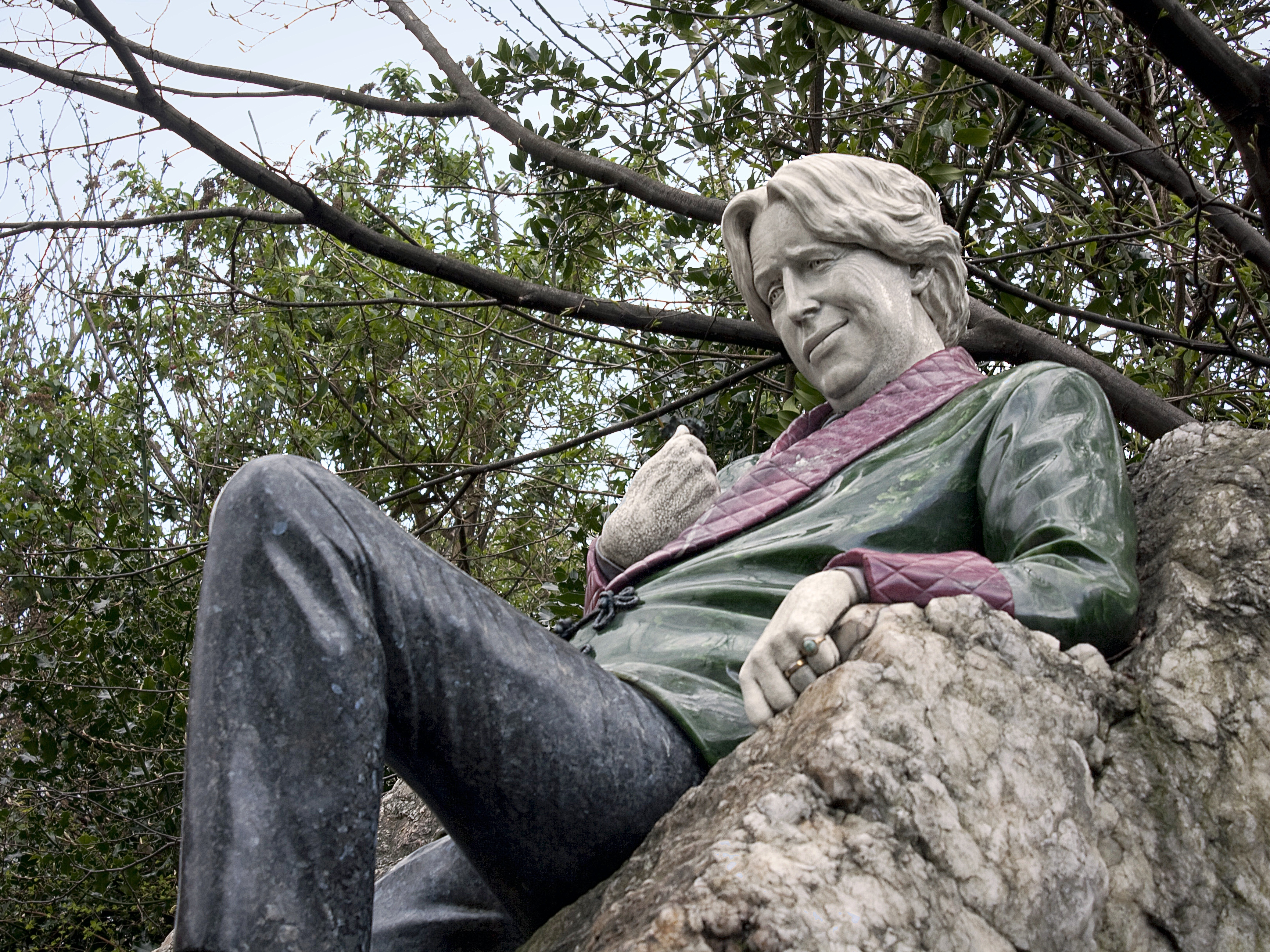 Statue of Oscar Wilde in Merrion Square, Dublin, Republic of Ireland